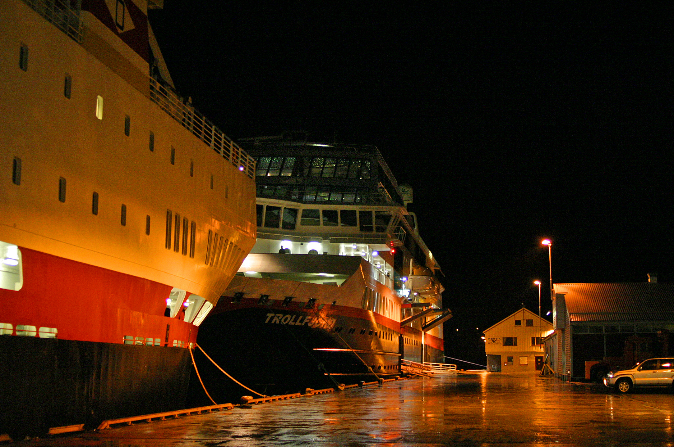 Hurtigruten - Shipwreck in port of Rørvik the MS Trollfjord and the Ms Vesteralen (Hurtigruten is a coastal transport service in Norway).